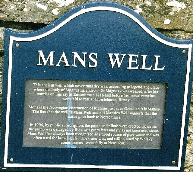 Man's Well. Explanatory sign on the side of the well. (See geograph for this square.)